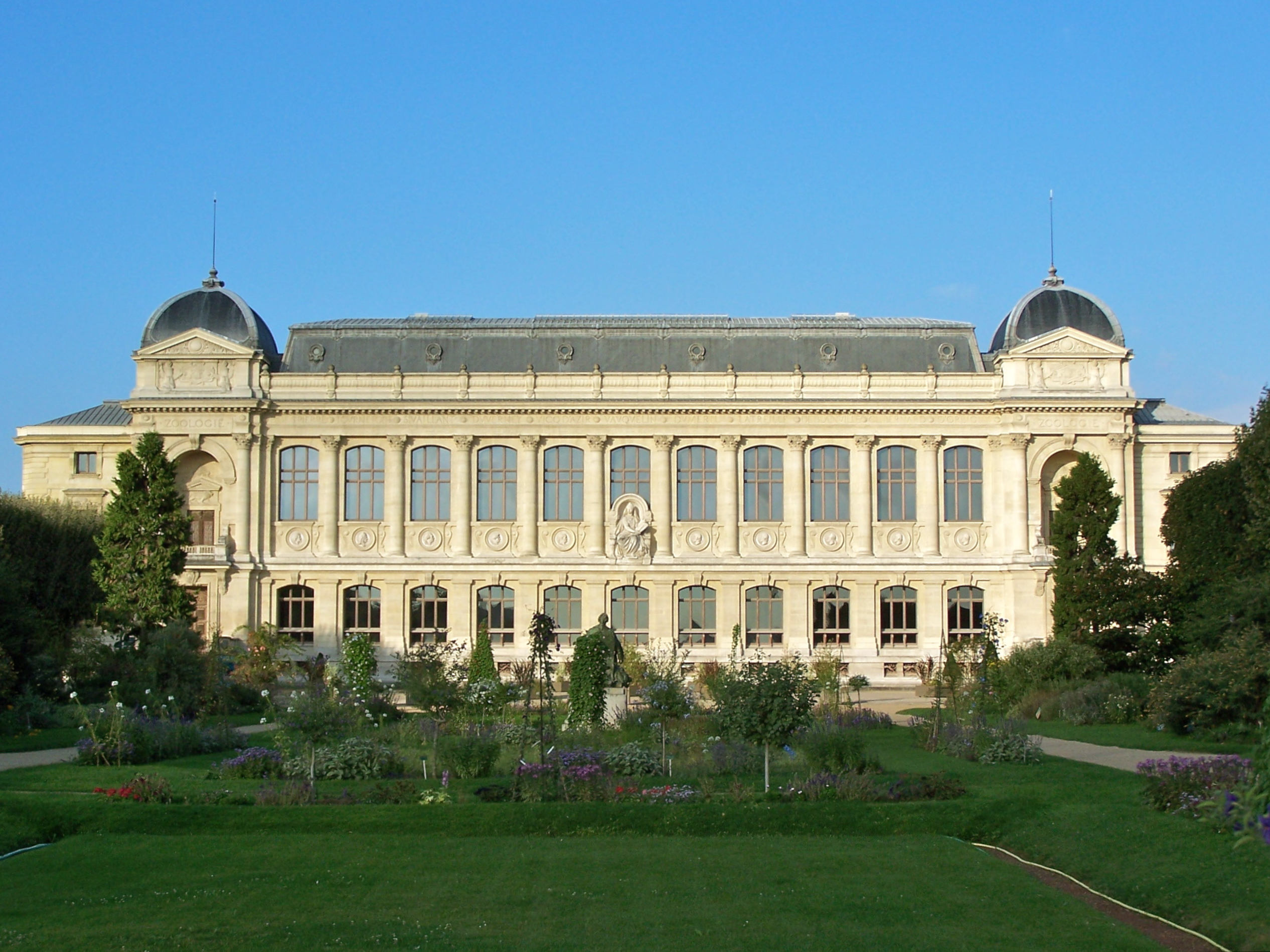 Façade of the grande galerie de l'Évolution (Gallery of Evolution), which is a zoology museum building belonging to the French National Museum of Natural History. The building is located in the Jardin des plantes in Paris.